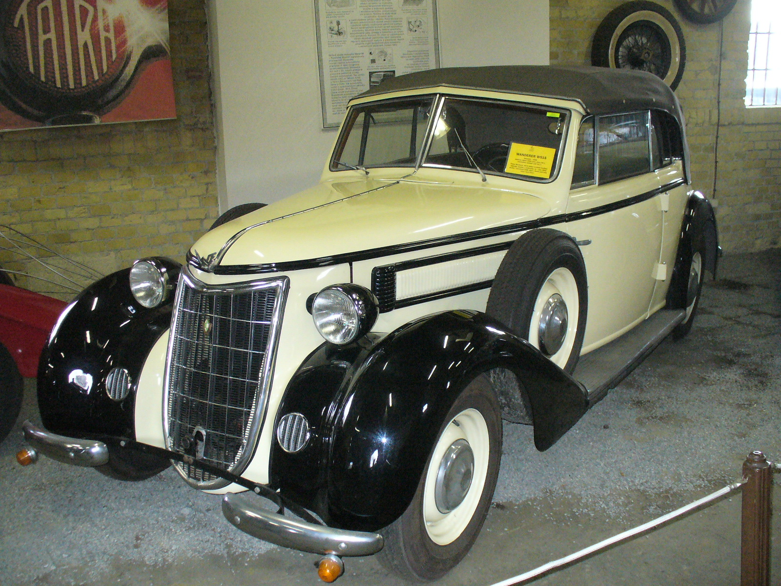 Wanderer W51S - Muzeum dopravy Bratislava (Transport Museum Bratislava).